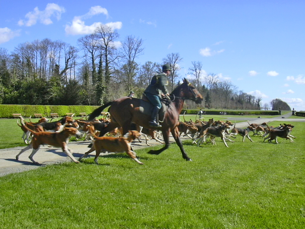 This is a show of the Bourbansais's zoo. This is dogs for hunting ground which name is "Français-Tricolores".